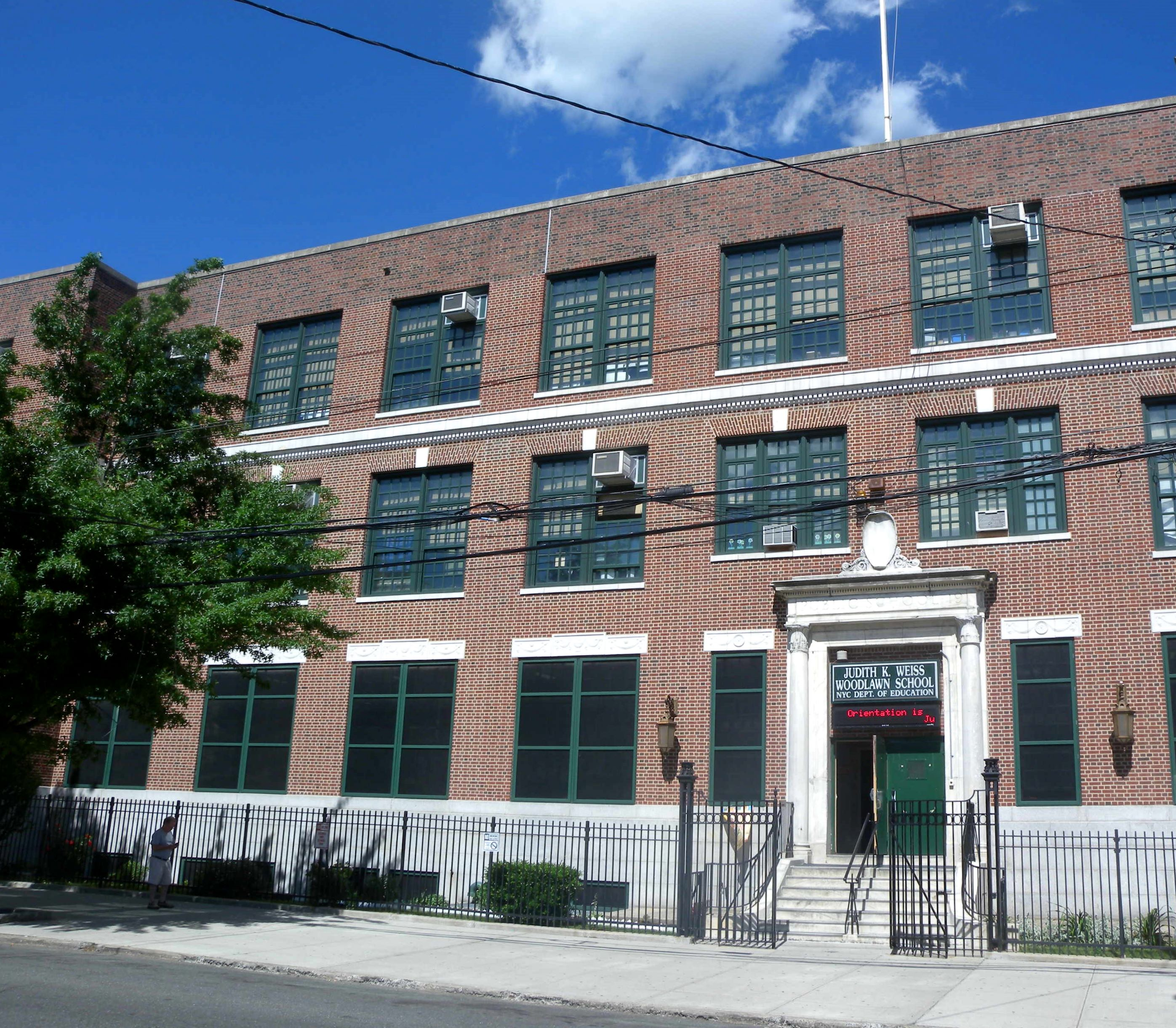 Looking east at the Weiss School, PS 19, 4318 Katonah Avenue in Woodlawn, on a sunny afternoon.